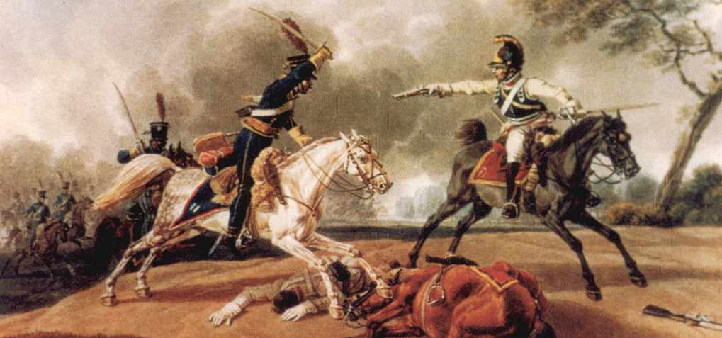 Austrian cuirassier fighting French hussars.